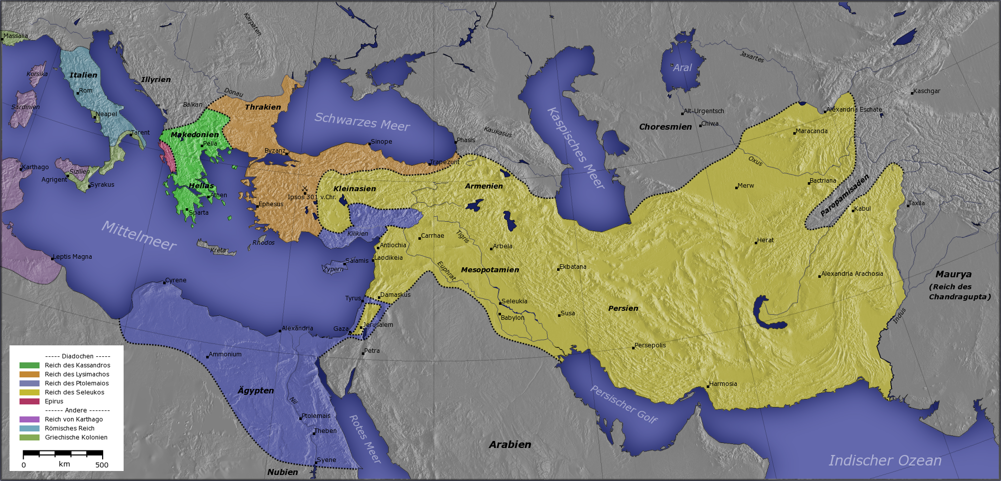 States of the Diadochi, c. 300 BC